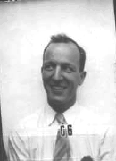 Hugh Bradner Los Alamos wartime security badge.